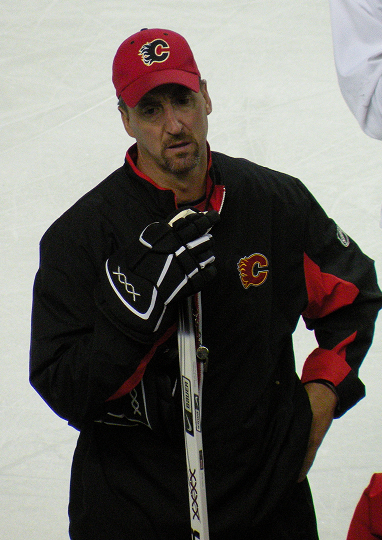 Former NHL player, head coach and current Flames associate coach Jim Playfair at the Flames' 2008 rookie camp.